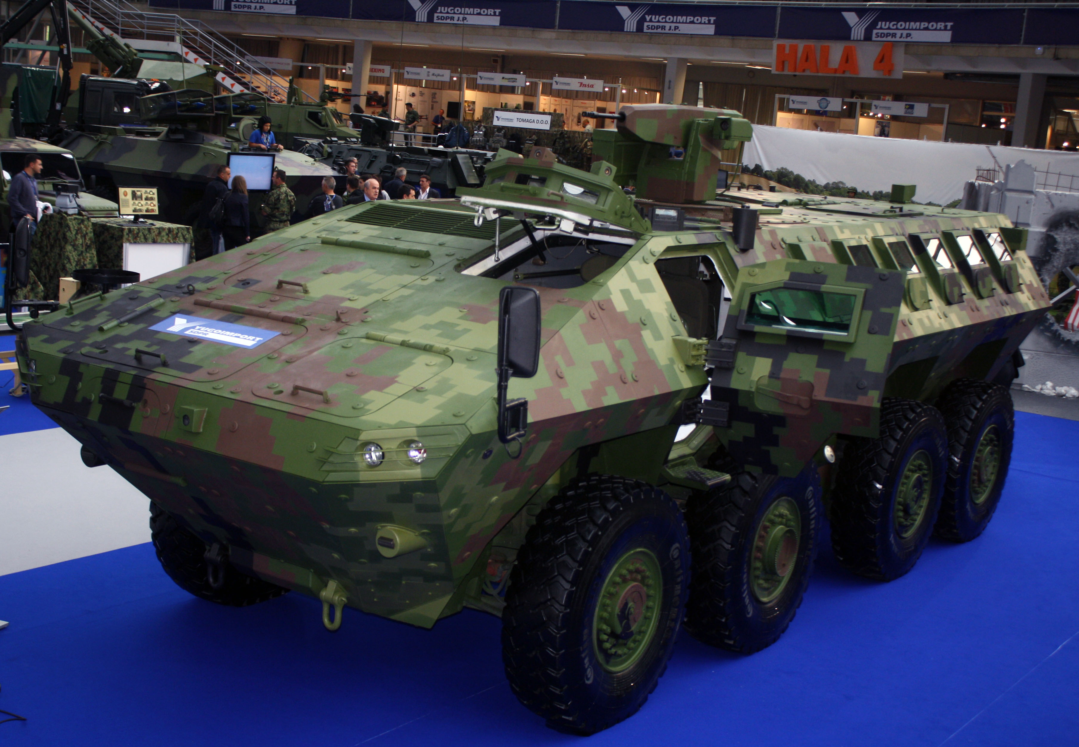 Lazar 2 8x8 multi role armored vehicle on display at Partner 2015 International Fair of Defense Systems and Equipment.